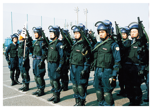 Anti-Firearms Squad of Japanese police with Heckler & Koch MP5.